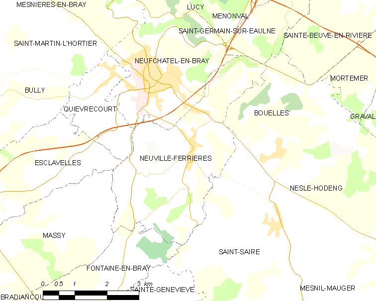 Map of French municipality Neuville-Ferrières